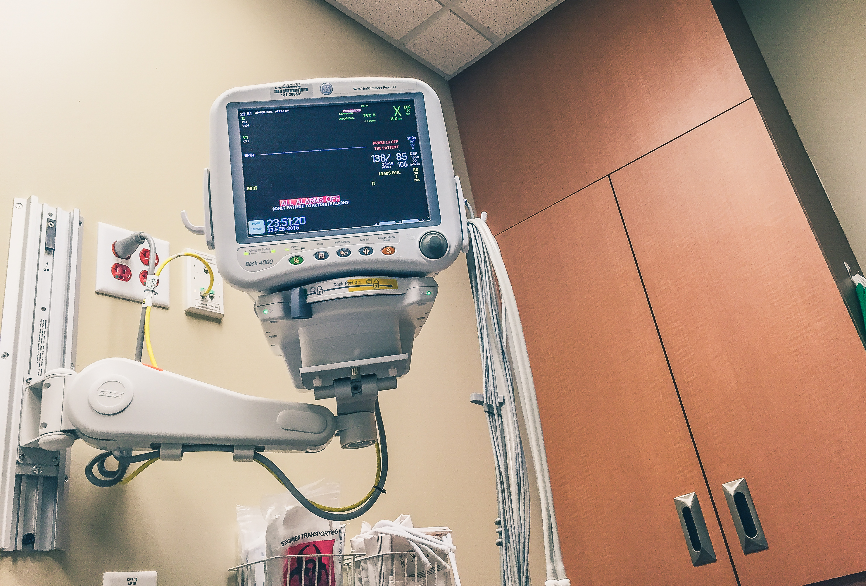 Emergency Room